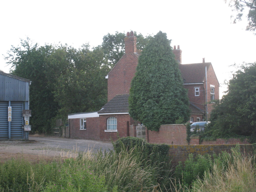 Former Station Master's House, Fockerby, near to Garthorpe, North Lincolnshire, Great Britain.